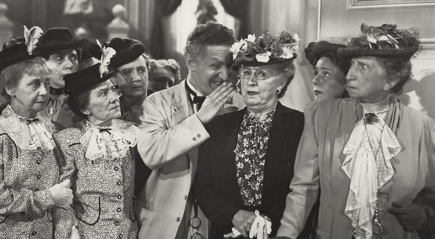 L. to R. (foreground) : Ida Moore, Margaret McWade, Kenny Delmar, Sarah Edwards & Vera Lewis in It's a Joke, Son! - publicity still